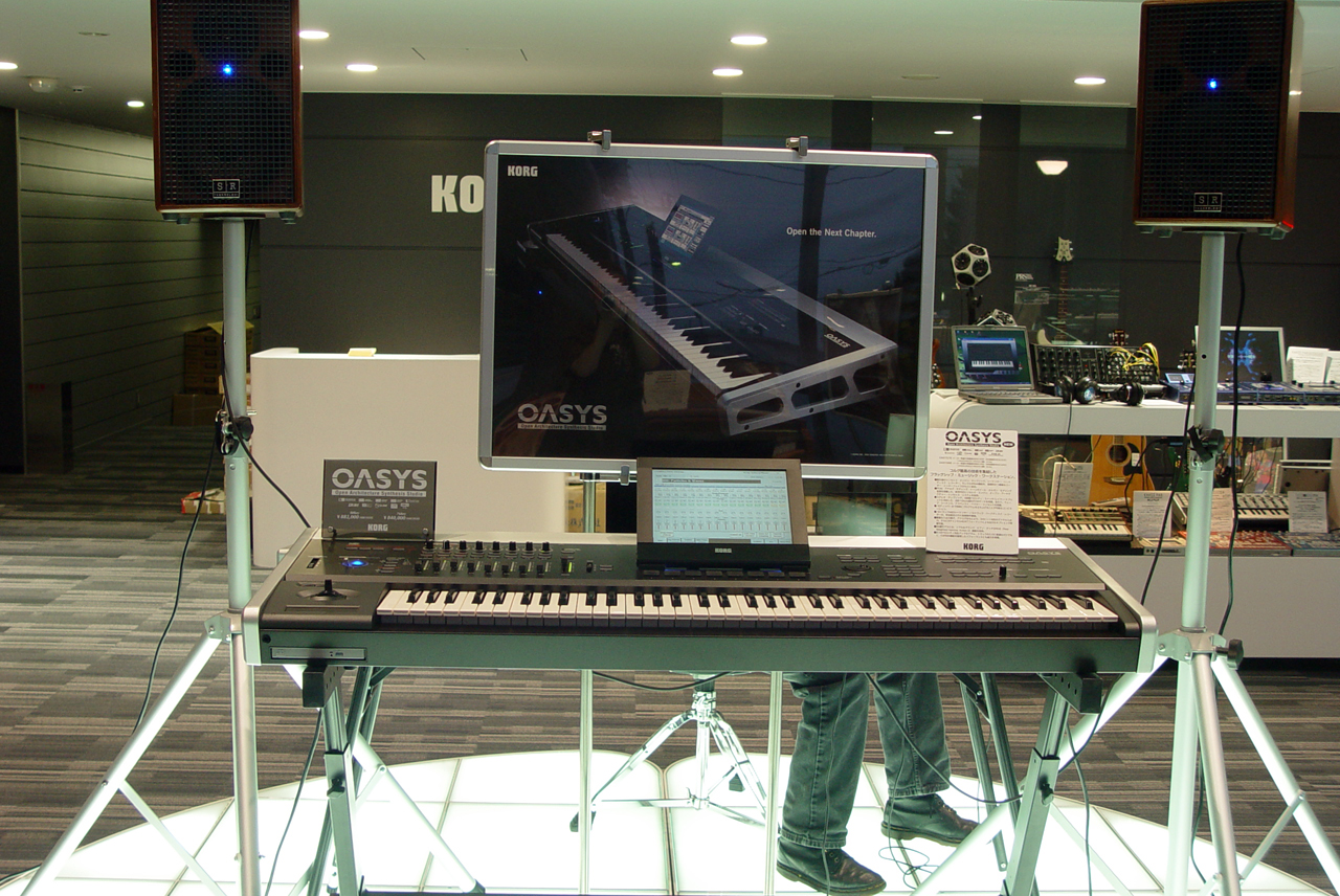 Korg OASYS synthesizer on display in the ground floor museum at their Tokyo office.